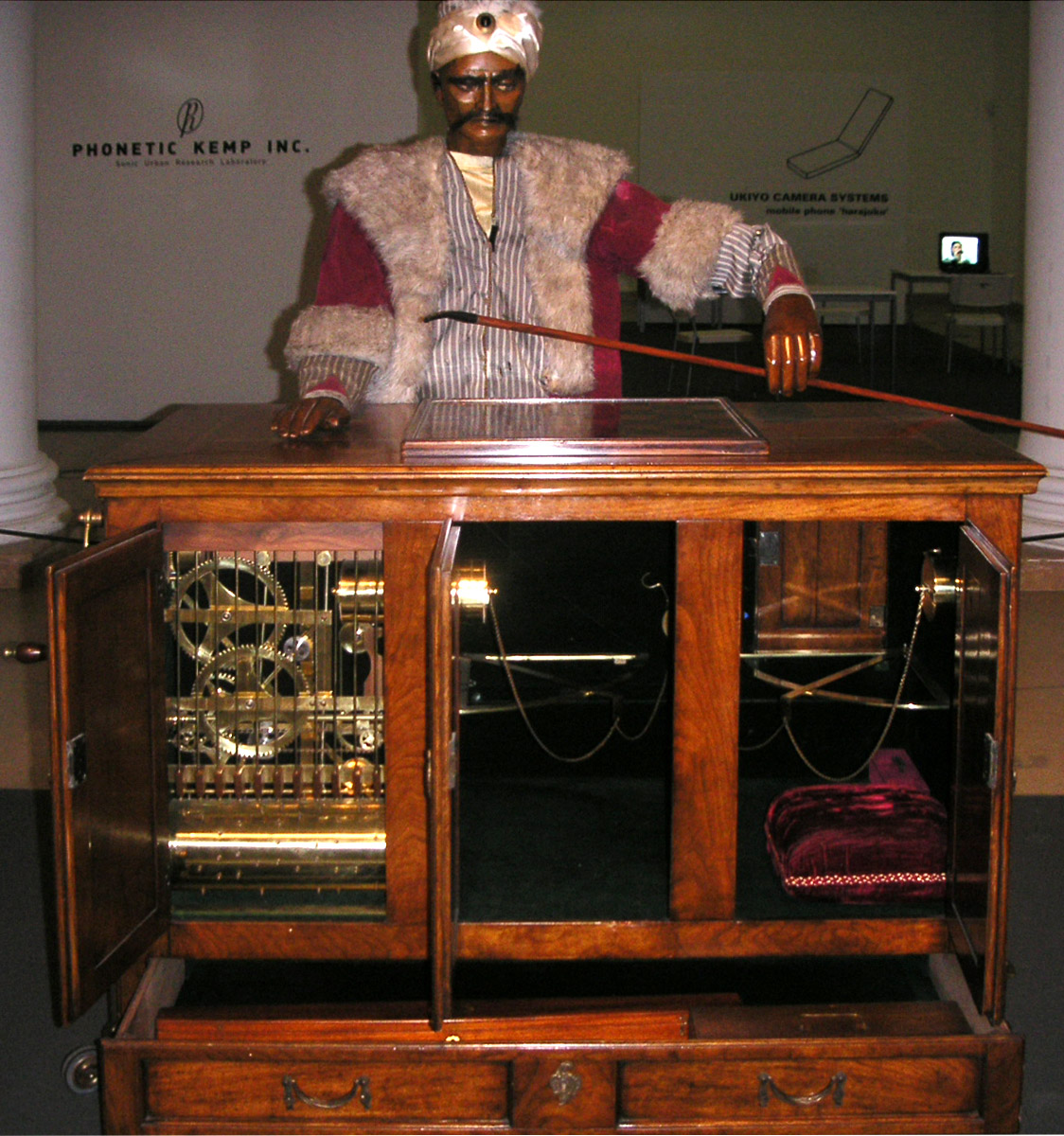 Photo of the reconstruction of the Turk, the a chess-playing automaton designed by Kempelen